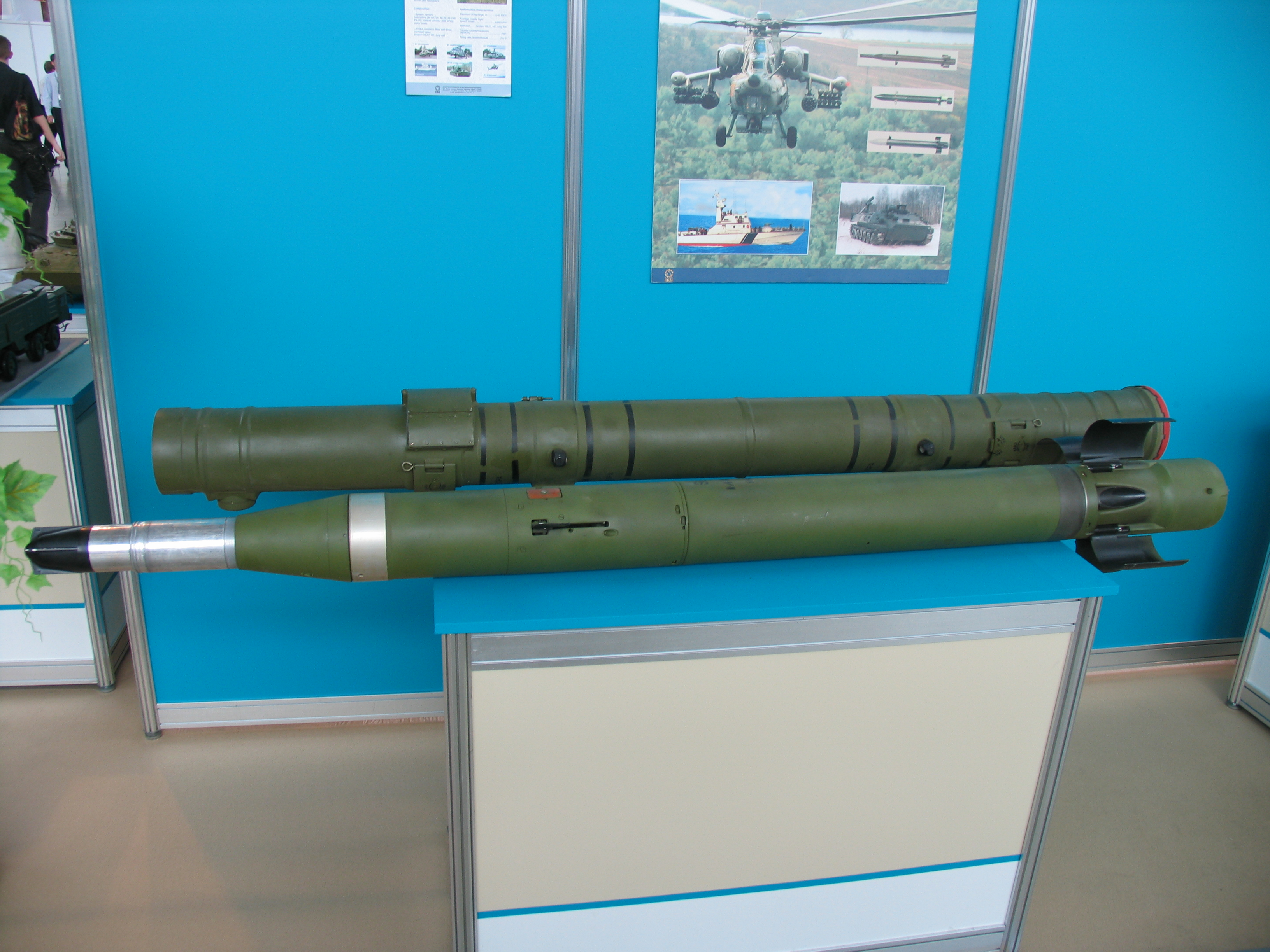 AТ-6 Spiral